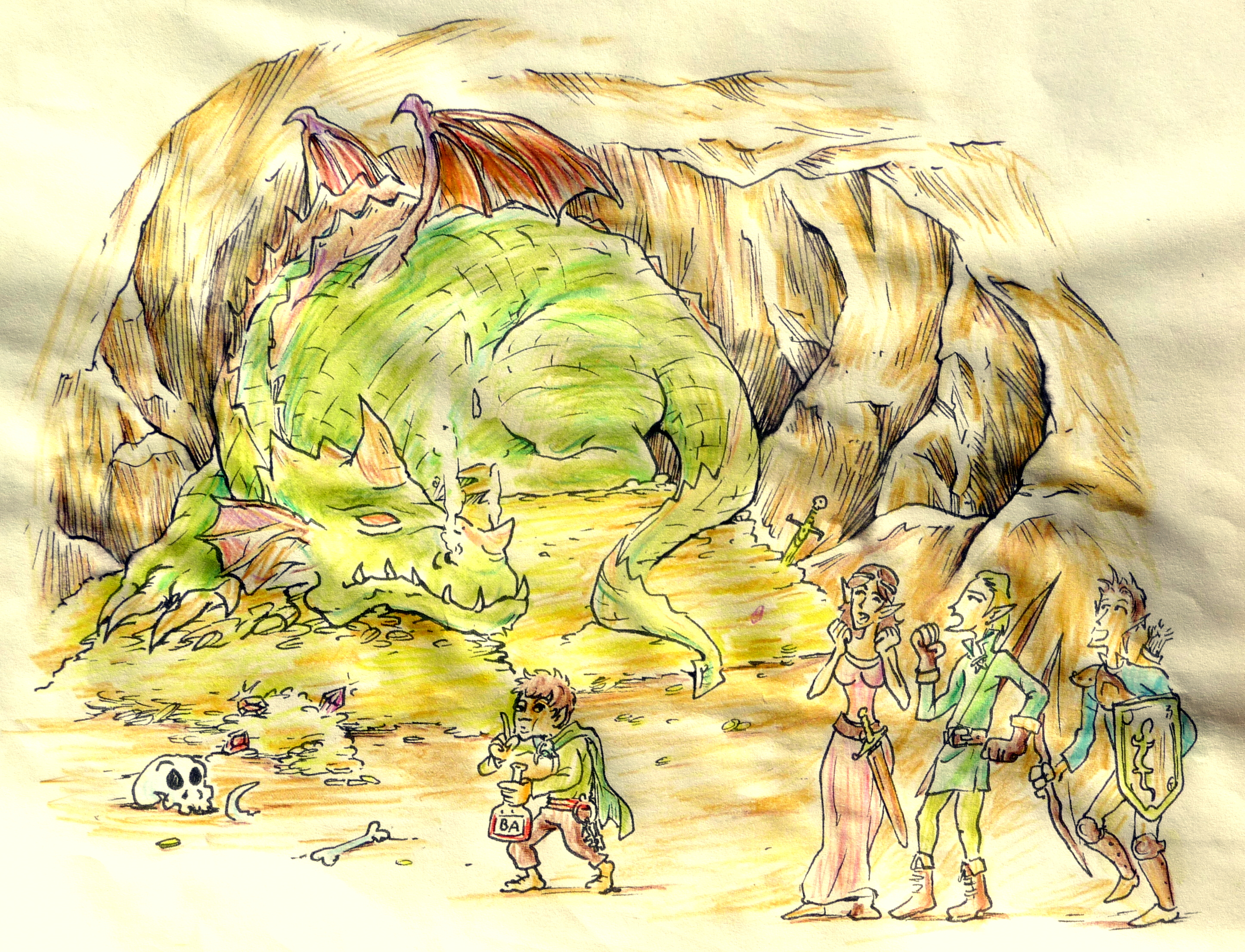 A bold wiki-hobbit's attempt to have Smaug swallow the Alchemical Beverage while asleep, despite contradictory advices from three friend elves.